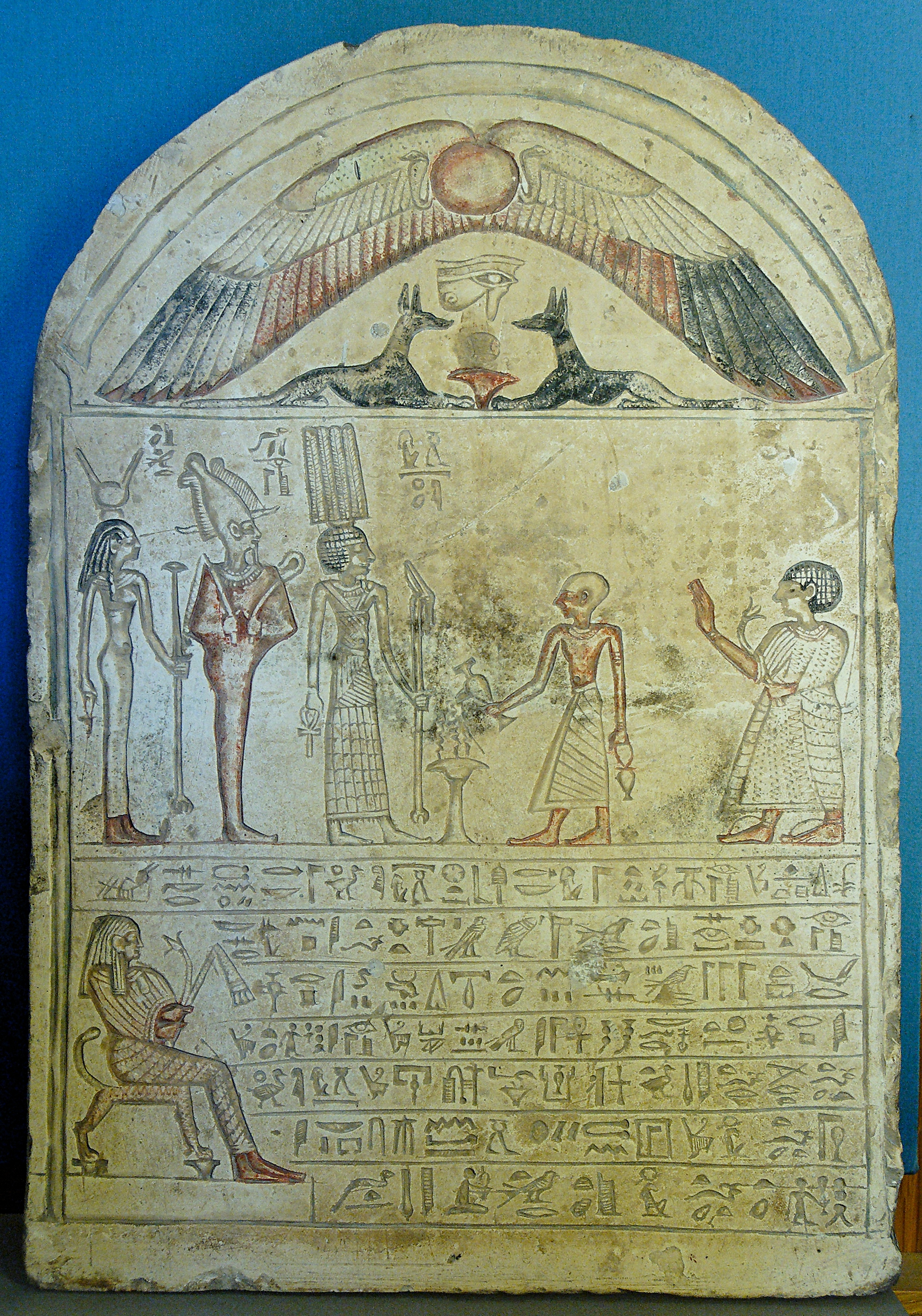 Upper tier: Meretitef, musician of Tefnut, has a libation poured in honour of the gods of Thinis: Anhur, Osiris and Isis; Lower tier: Meretitef sitting in front of the traditional offering prayer. Limestone, 4th century BC.